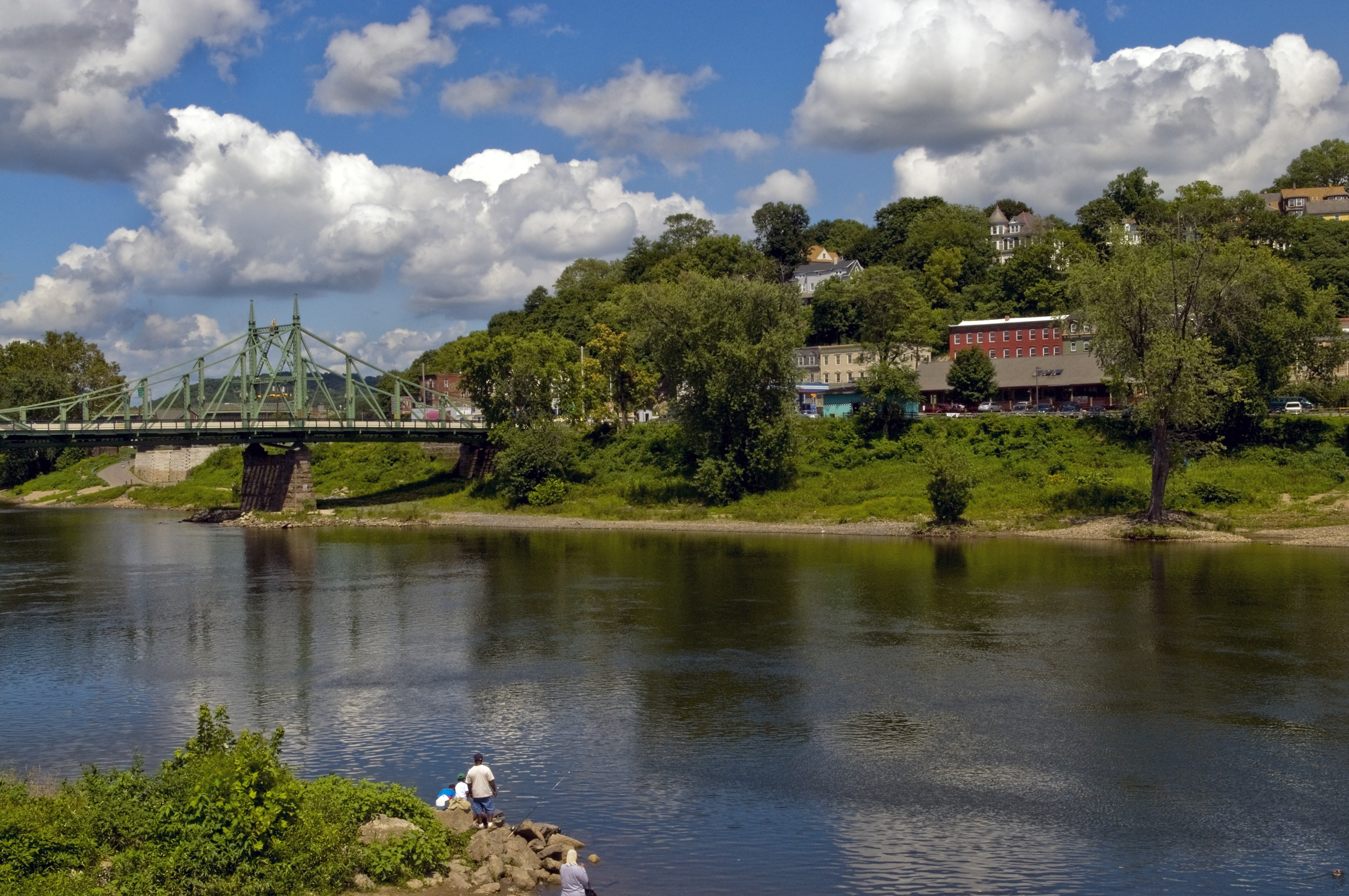 View of Phillipsburg, New Jersey and "Free Bridge" taken from park across Delaware River on Rt. 611 from Easton, PA.